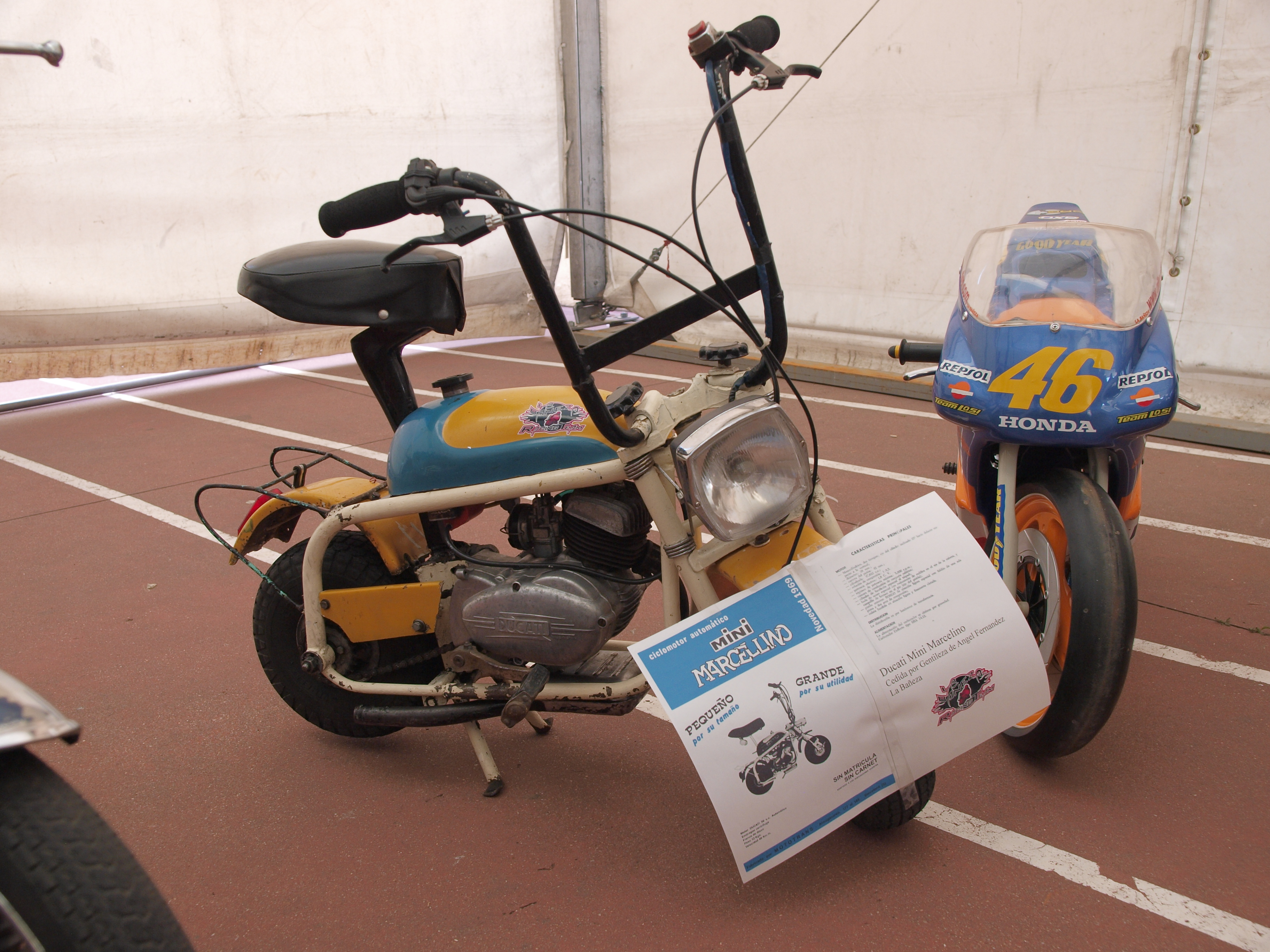 Spanish built Mini Marcelino minibike, first batch, at exhibition in the Feria del Motor, La Bañeza (Leon, Spain), August 2012